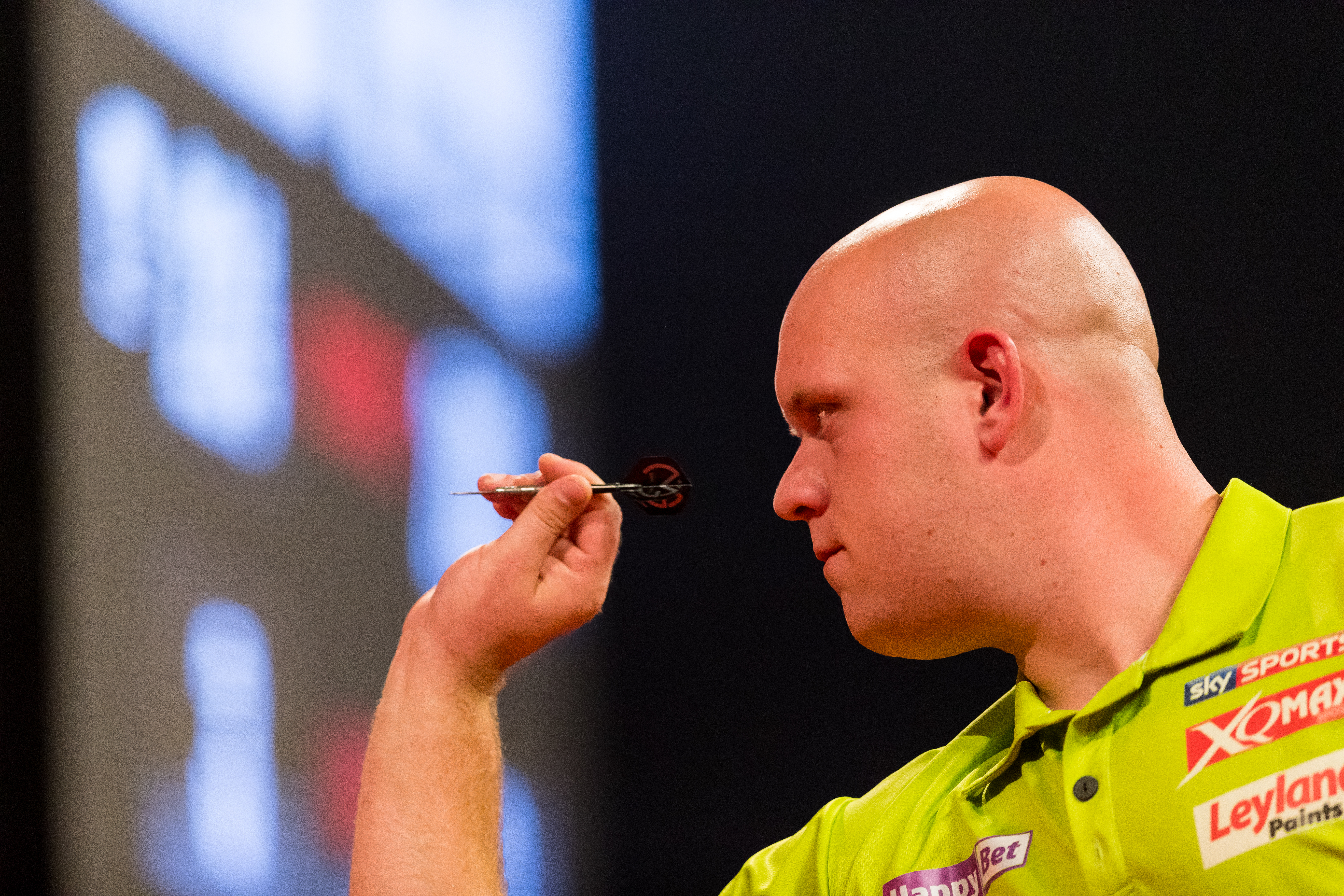 Final: [14] Rob Cross (ENG) 3:6 [1] Michael van Gerwen (NED) during Professional Darts Corporation (PDC), German Darts Grand Prix (GDGP) at Maimarkthalle, Mannheim, Baden-Württemberg, Germany on 2017-09-10, Photo: Sven Mandel